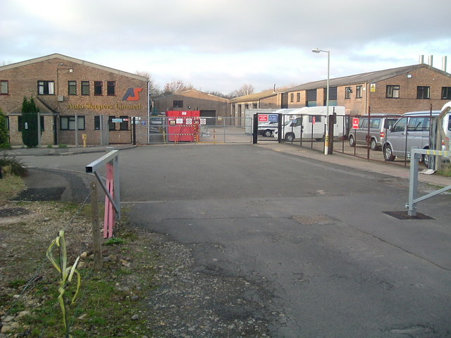 Autosleepers factory, Willersey Britain's largest manufacturer of motor-homes, based in a small village in Gloucestershire.